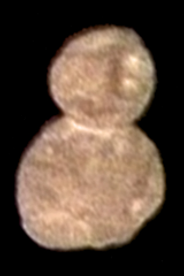 Composite color view of object 2014 MU69, also known as Ultima Thule, taken by the New Horizons spacecraft